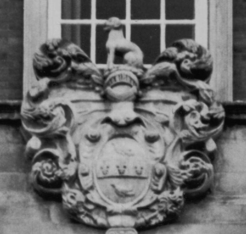 This enlarged detail shows the arms of the Hustler family above the front door. Of particular interest is the dog motif, which is said to be a Talbot, an extinct hunting breed dating back to Norman times. Full Image :thumb|none|50px